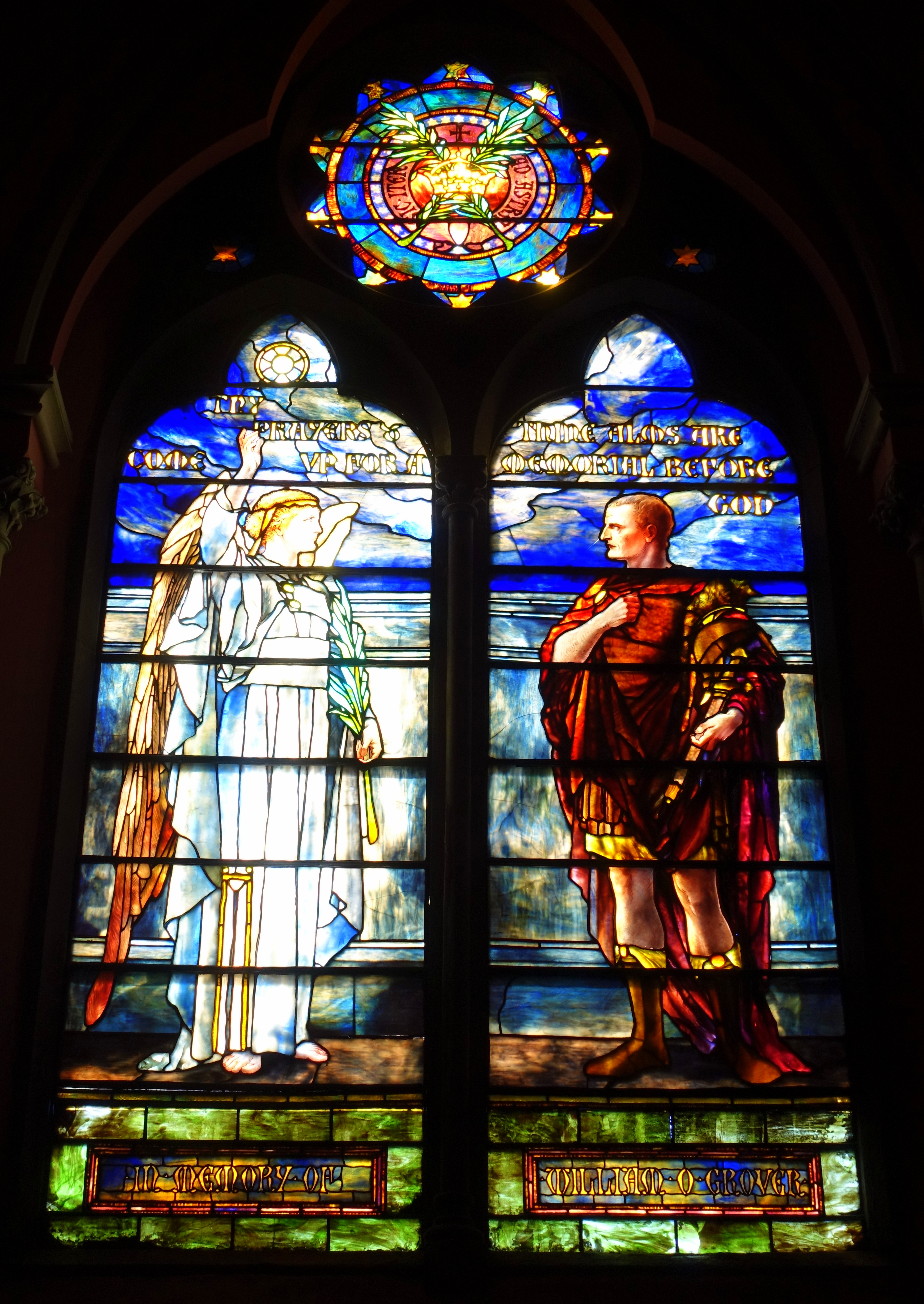 Interior view of the Church of the Covenant, 67 Newbury Street, Boston, Massachusetts, USA. Most of the interior design by Tiffany Studios. This artwork is in the public domain because the artist(s) died more than 70 years ago.